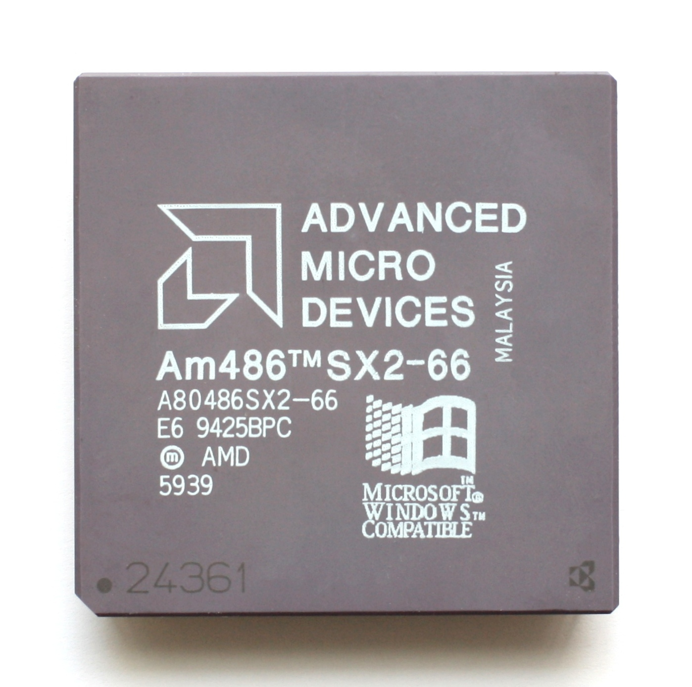 AMD 486SX2